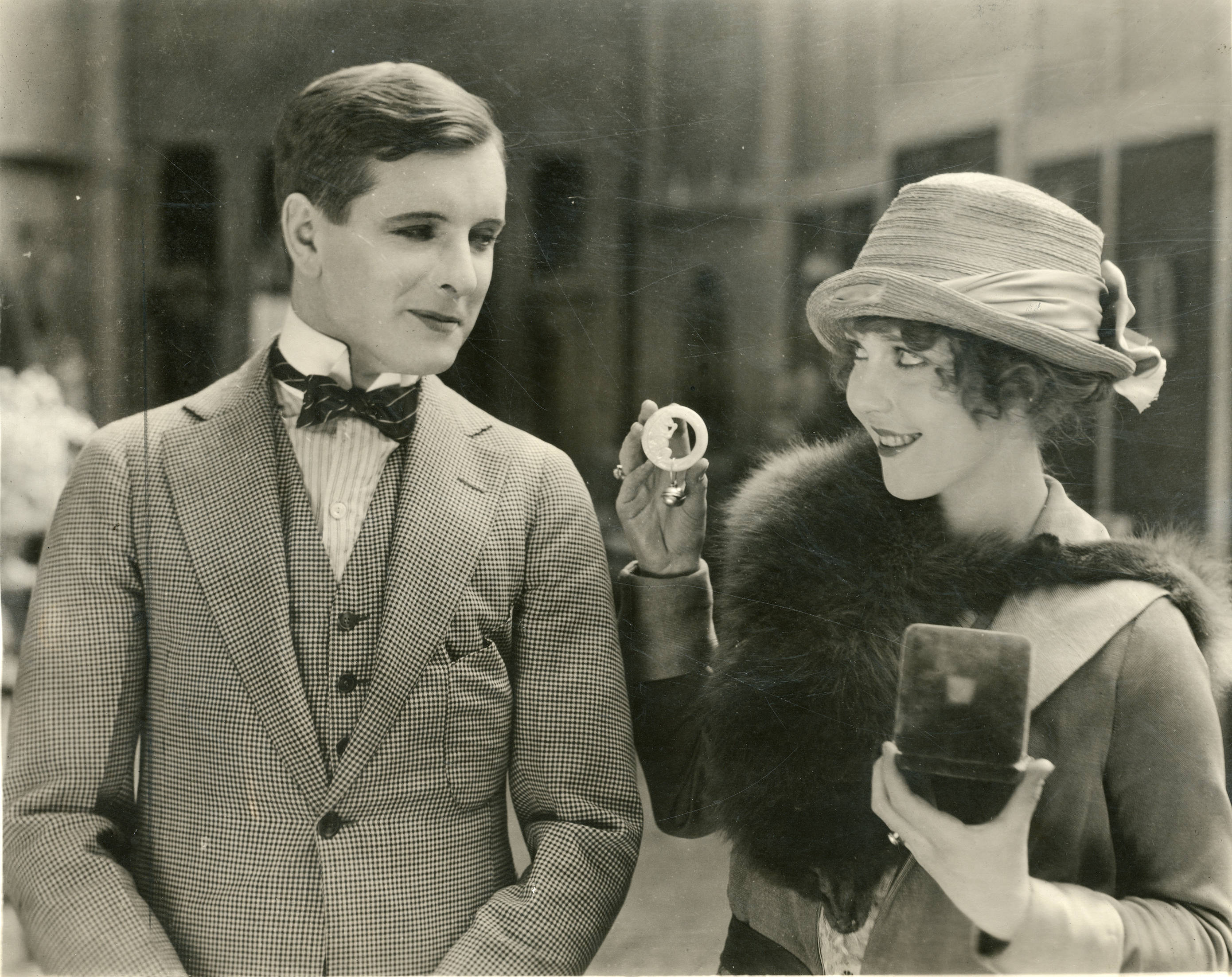 A scene from the American film Oh, Boy! (1919), which played at the Clemmer Theater, Seattle. Includes June Caprice and Creighton Hale. Dated Oct. 19, 1919. Subjects: motion pictures, actresses, actors